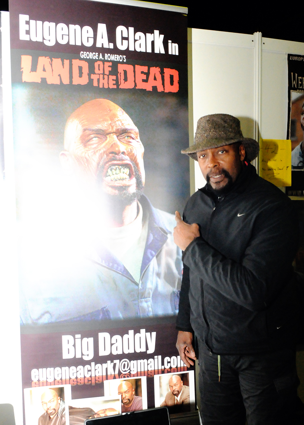 Eugene Clark @ Weekend Of Horrors 11 - Turbinenhalle Oberhausen, Germany 2013